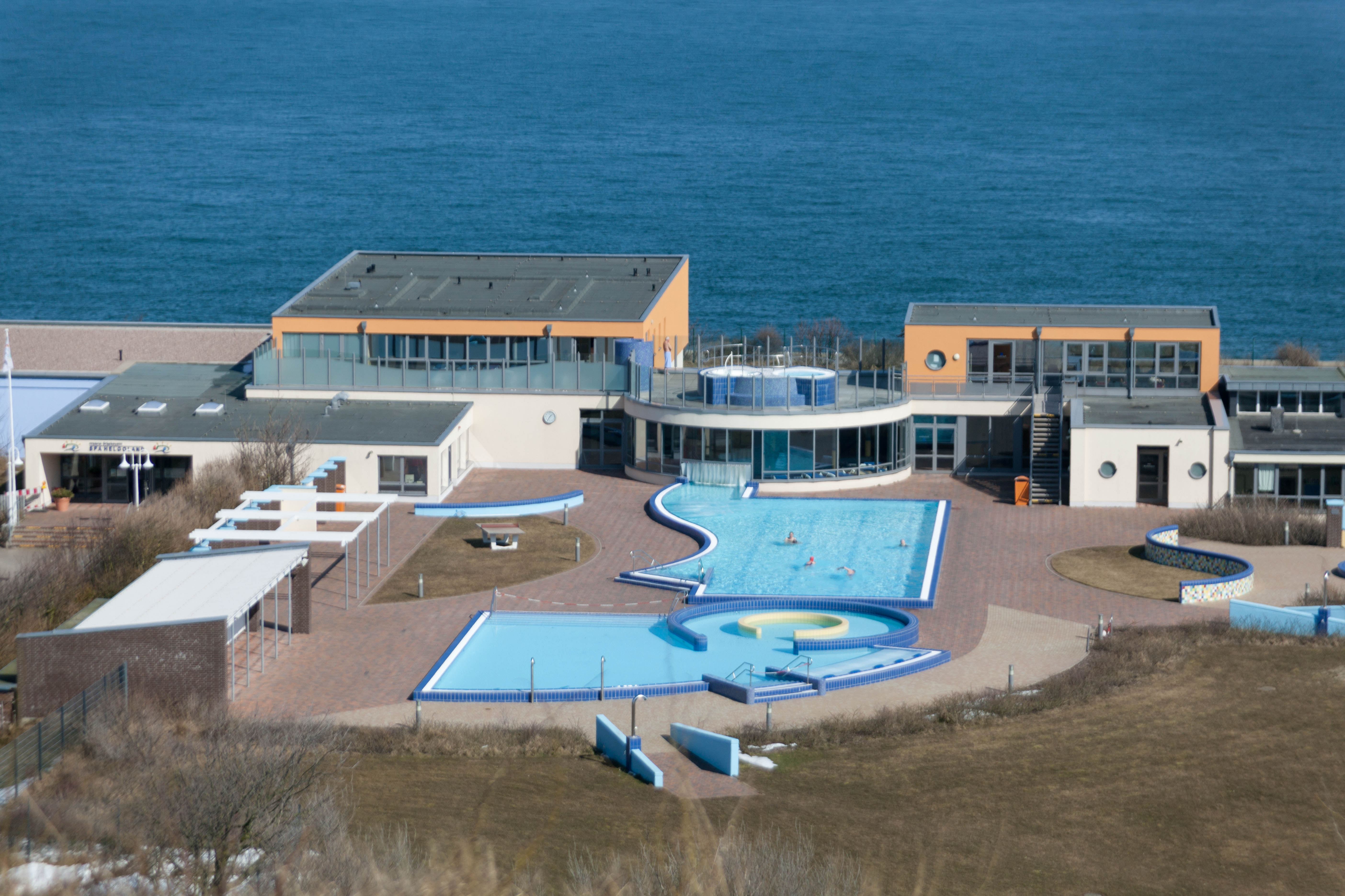 Heligoland, Germany